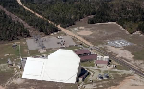 Buildings housing the AN/FPS-85 phased array radar at Eglin Air Force Base Site C-6 in Eglin, Florida. The AN/FPS-85, which became operational in 1969, was the world's first large phased array radar, used for tracking of spacecraft and orbiting objects as part of the Space Surveillance Network operated by the US Air Force Space Command. With a peak output power of 32 megawatts the Air Force claims it to be the most powerful radar in the world. It consists of a transmitting building (white, bottom center) facing south, with the radar antennas mounted on its sloping 45° face. The transmitting antenna (left) consists of a rectangular 72x72 array of 5,184 crossed dipole antennas spaced 37 cm apart. It transmits at 442 MHz with each transmitter module having an output power of 10 kW. The receiving antenna (right) consists of an octangular array 58 m in diameter consisting of 19,500 crossed dipole antenna elements feeding 4,660 receiver modules. It can reportedly track an object the size of a basketball at a distance of 22,000 nautical miles.